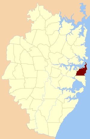 original loction of the parish within Cumberland County, New South Wales (Sydney area)